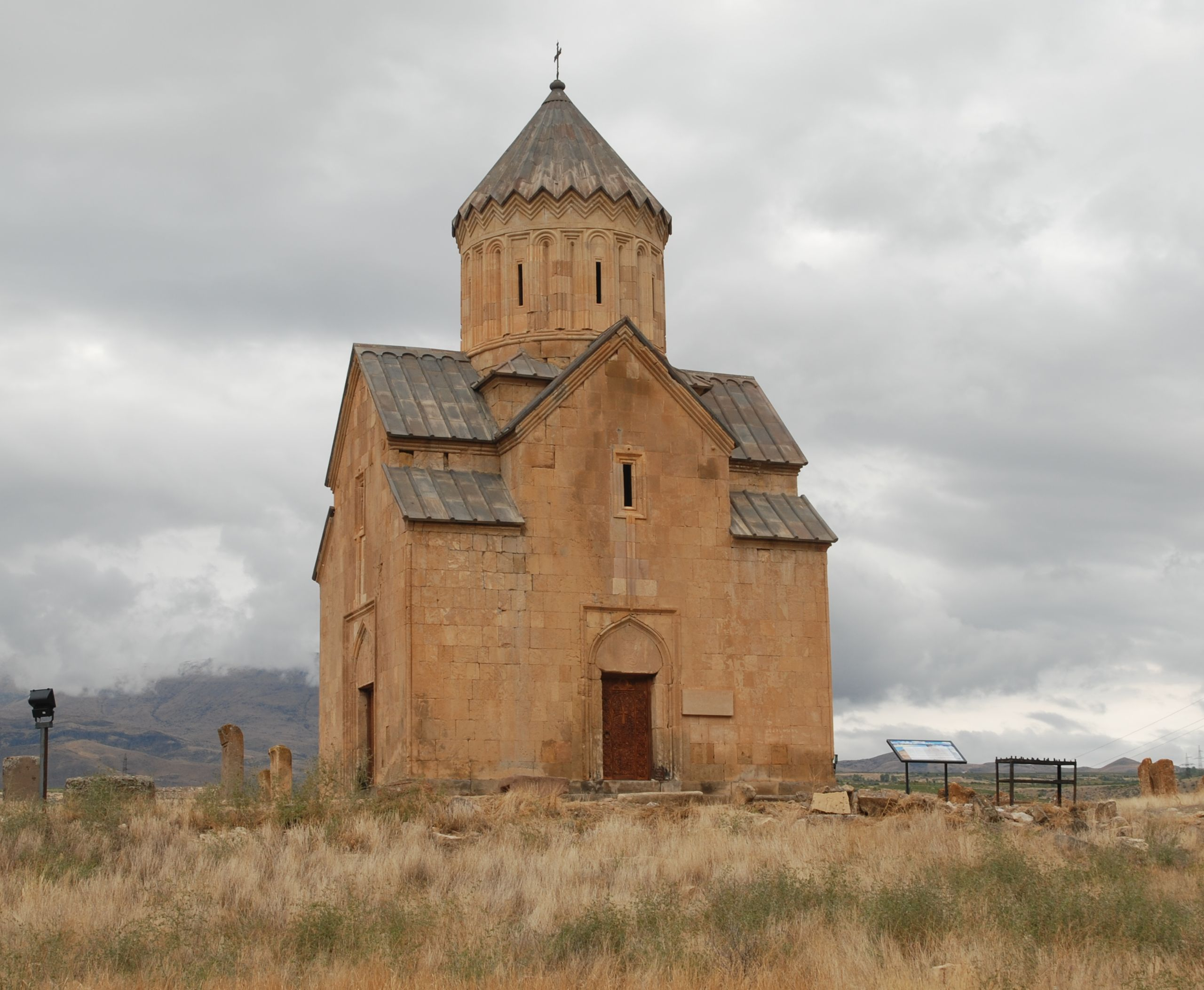 Areni church from south